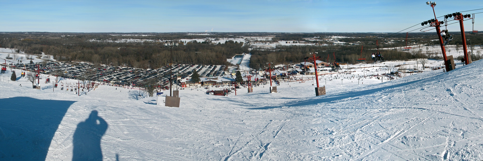 Wilmot Mountain, Wilmot, Wisconsin. Taken during the annual Demo day (2-18-07). This was the busiest day in four years, and one of the few occasions where the parking lots were full to capacity. Taken from the top of "Superior" run.